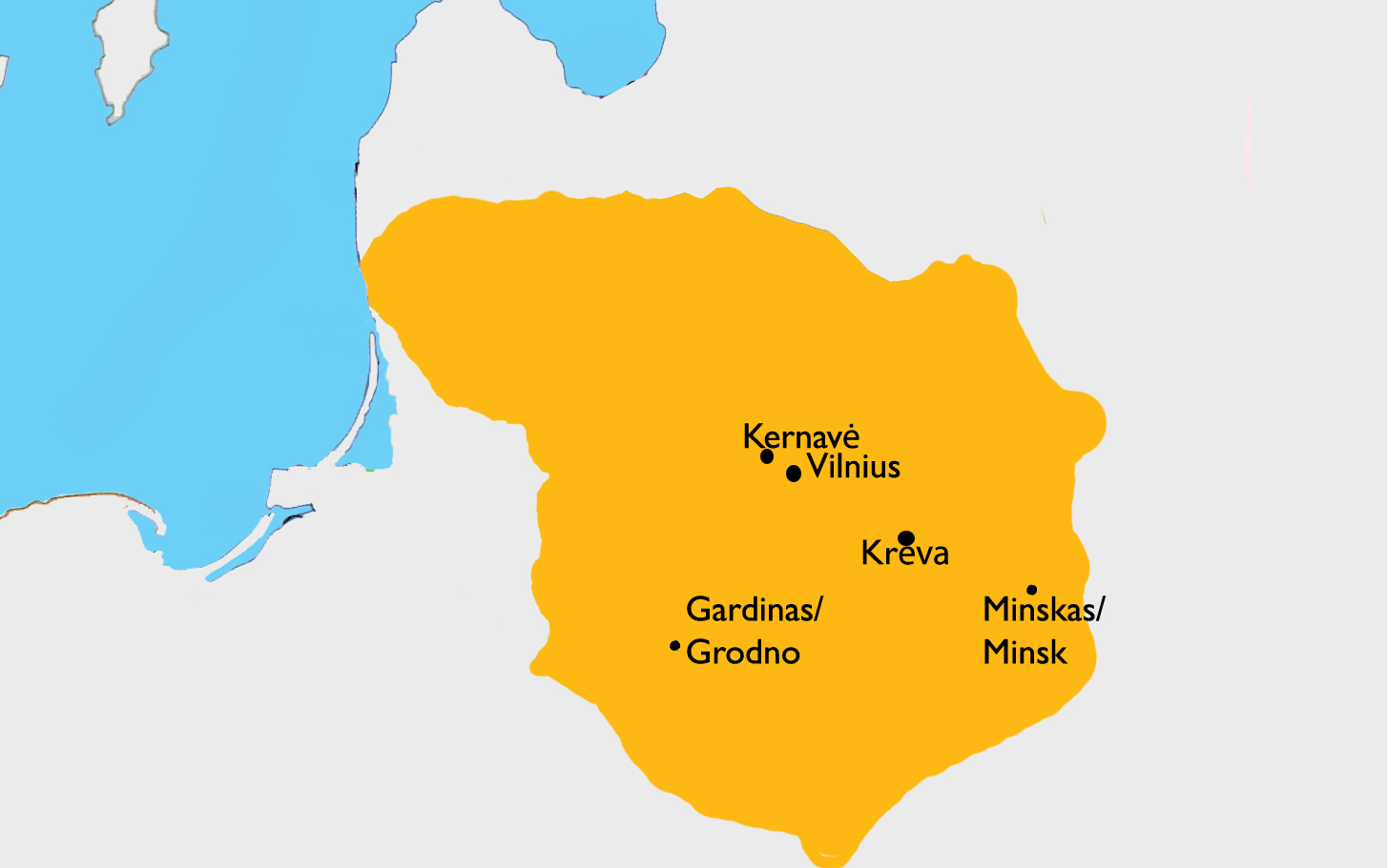 Historical map of Lithuania at 1240-1263.